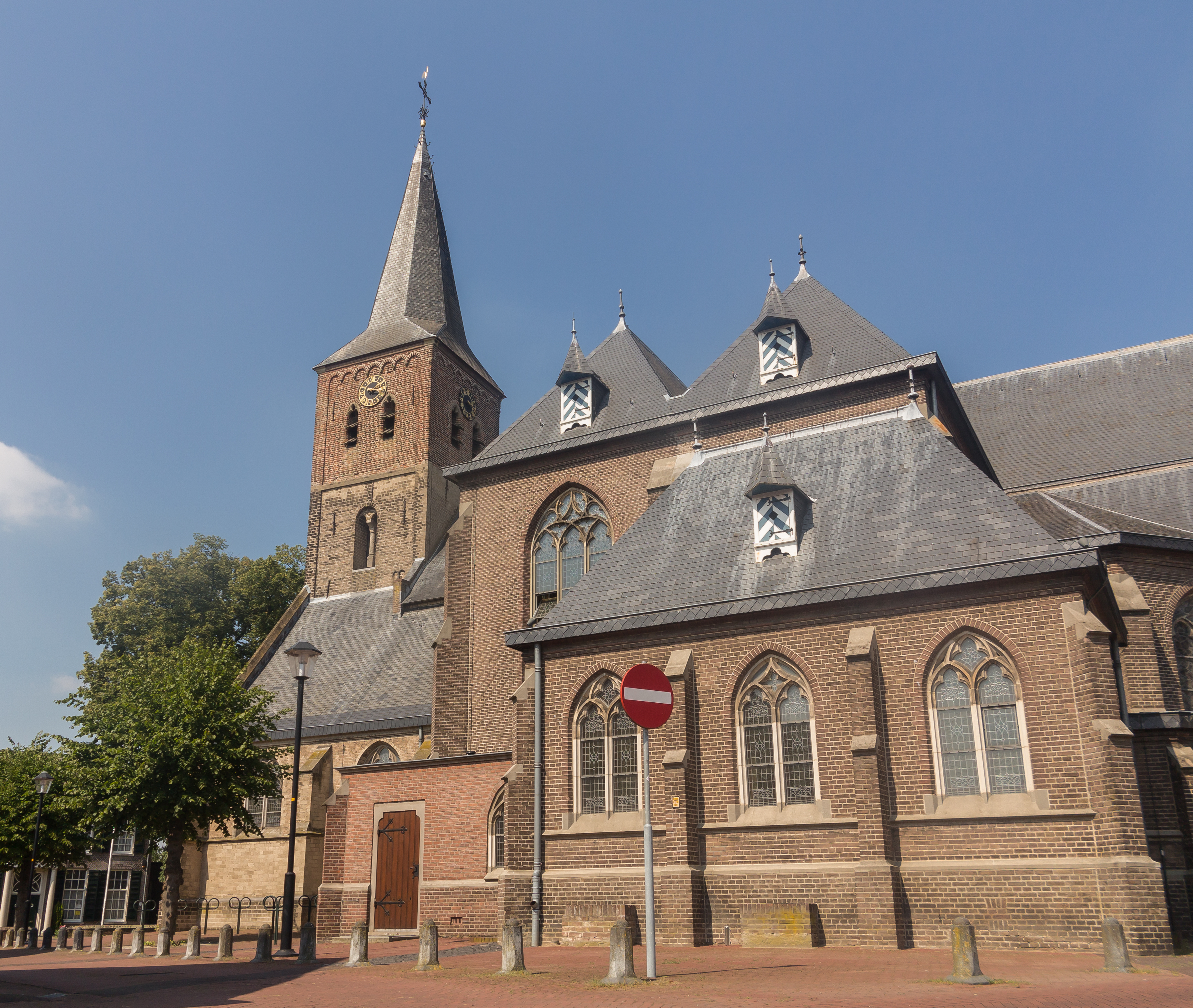 Wehl, church: de Rooms Katholieke Sint Martinuskerk